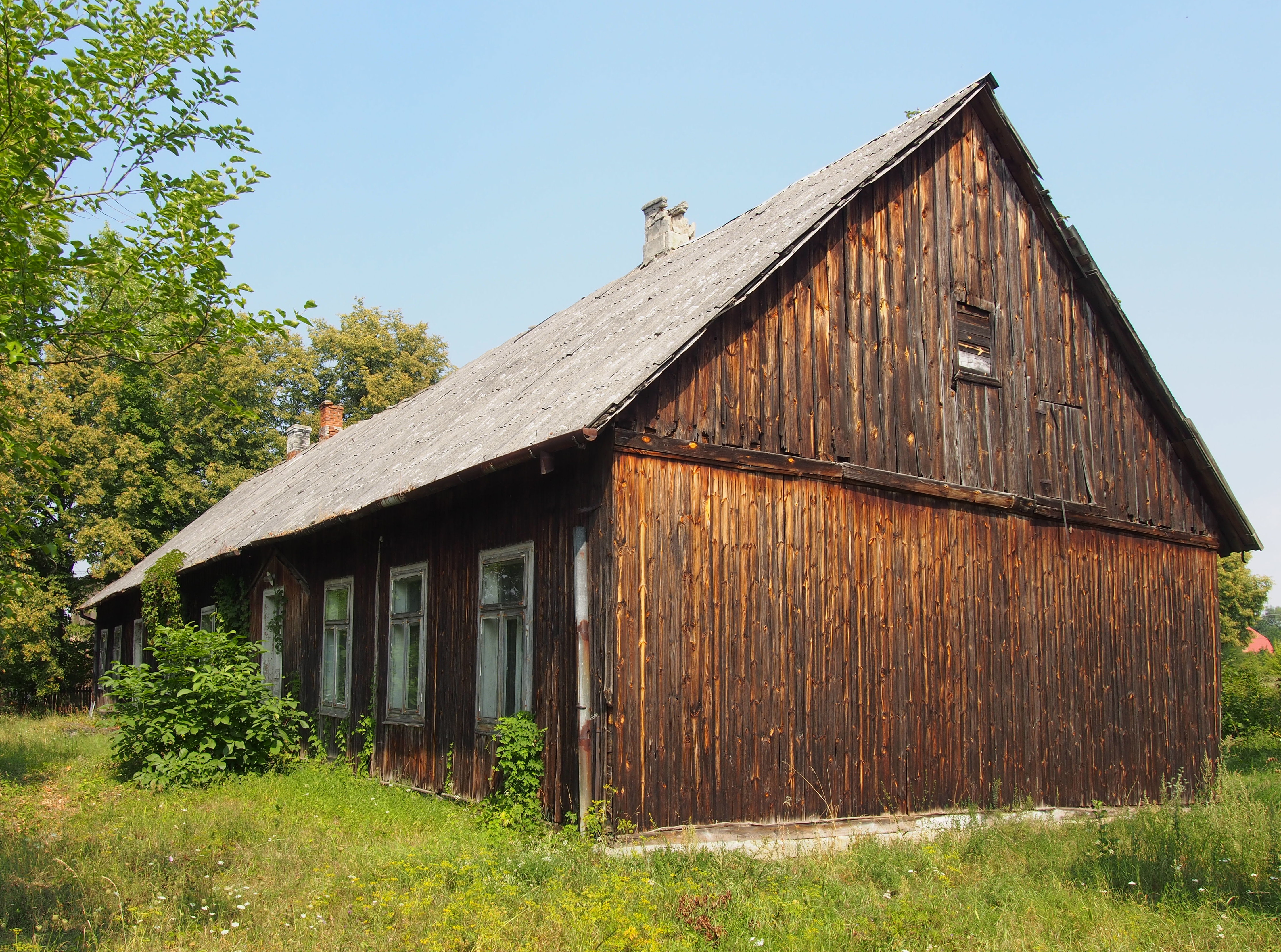 The old primary school building in Wiązownica-Kolonia, powiat staszowski, Świętokrzyskie Voivodeship, Poland. The school was bulit in 1909, expanded in 1938, renovated in 2004, closed in 2009.